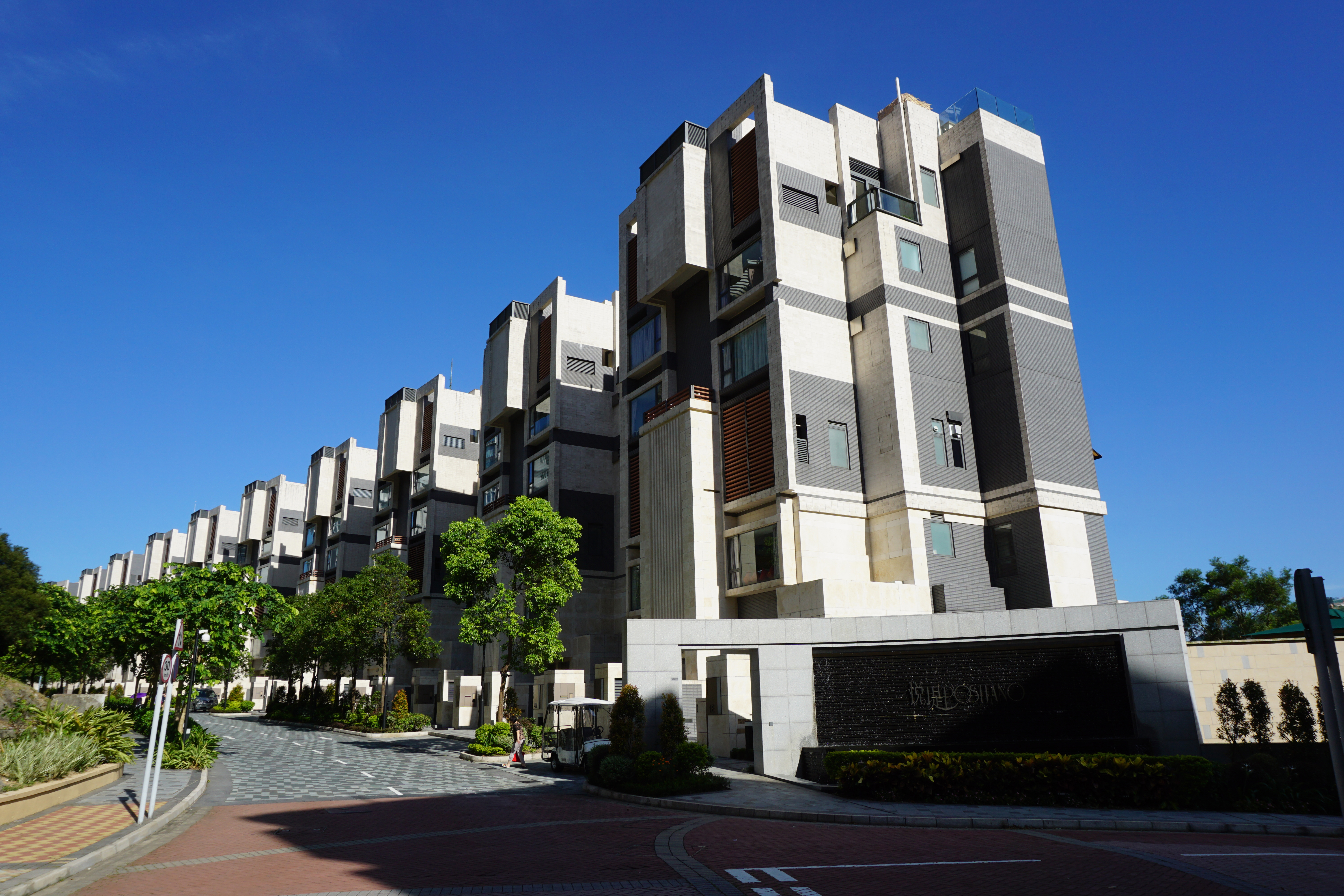 Positano in Discovery Bay, Hong Kong.